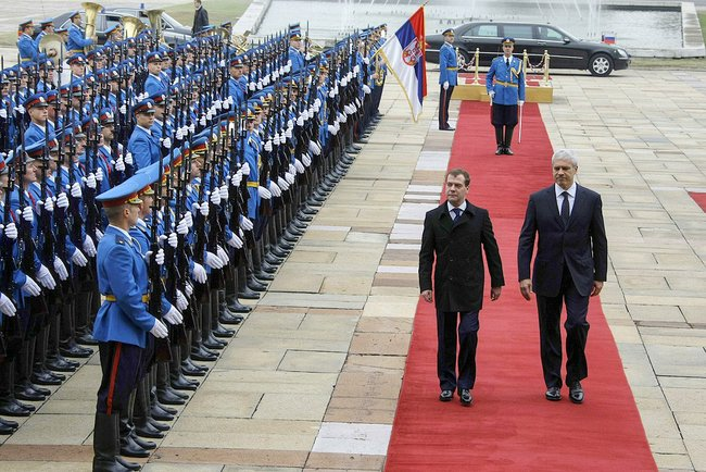 Visit of Dmitry Medvedev to Serbia. Official welcome ceremony. Dmitry Medvedev, Boris Tadić, Guard of Serbia